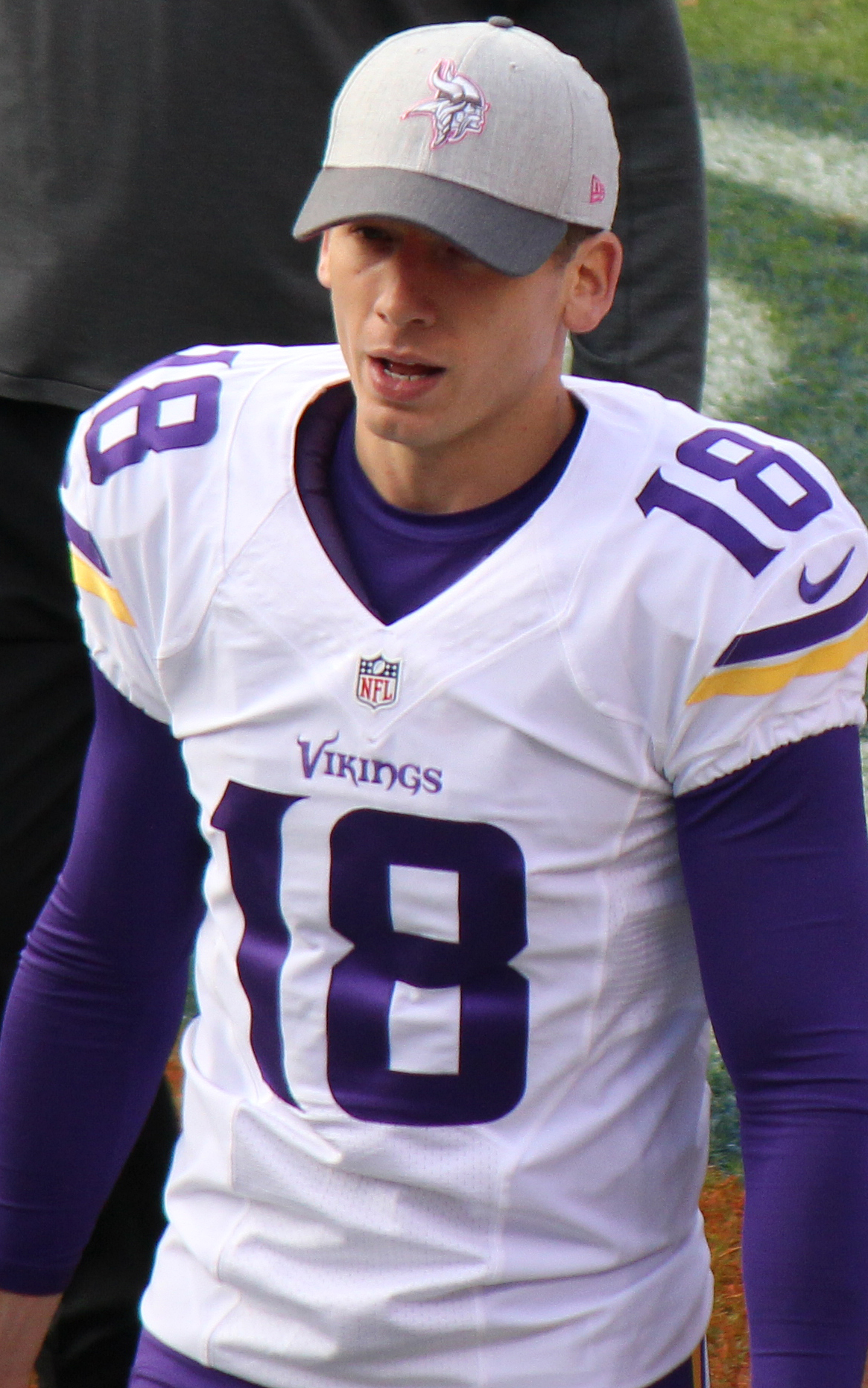 Jeff Locke, a player on the National Football League.